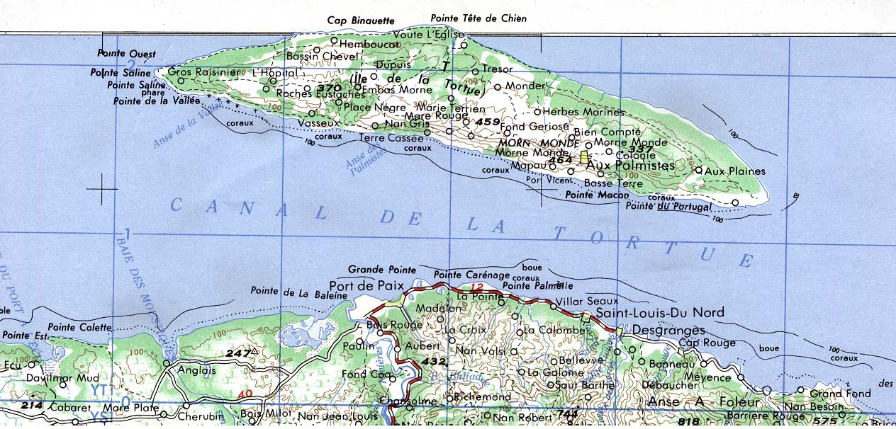 Map of Île de la Tortue, Northern Haiti